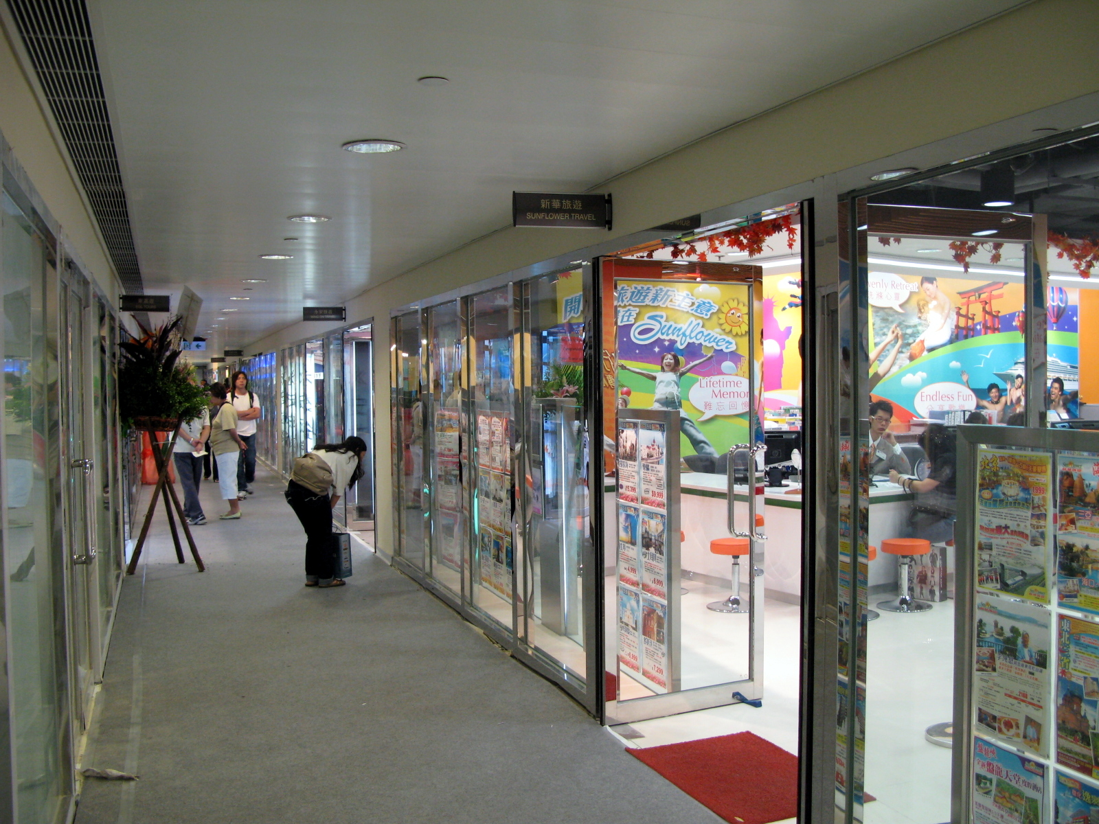 HK Shatin Citylink Plaza Level 7